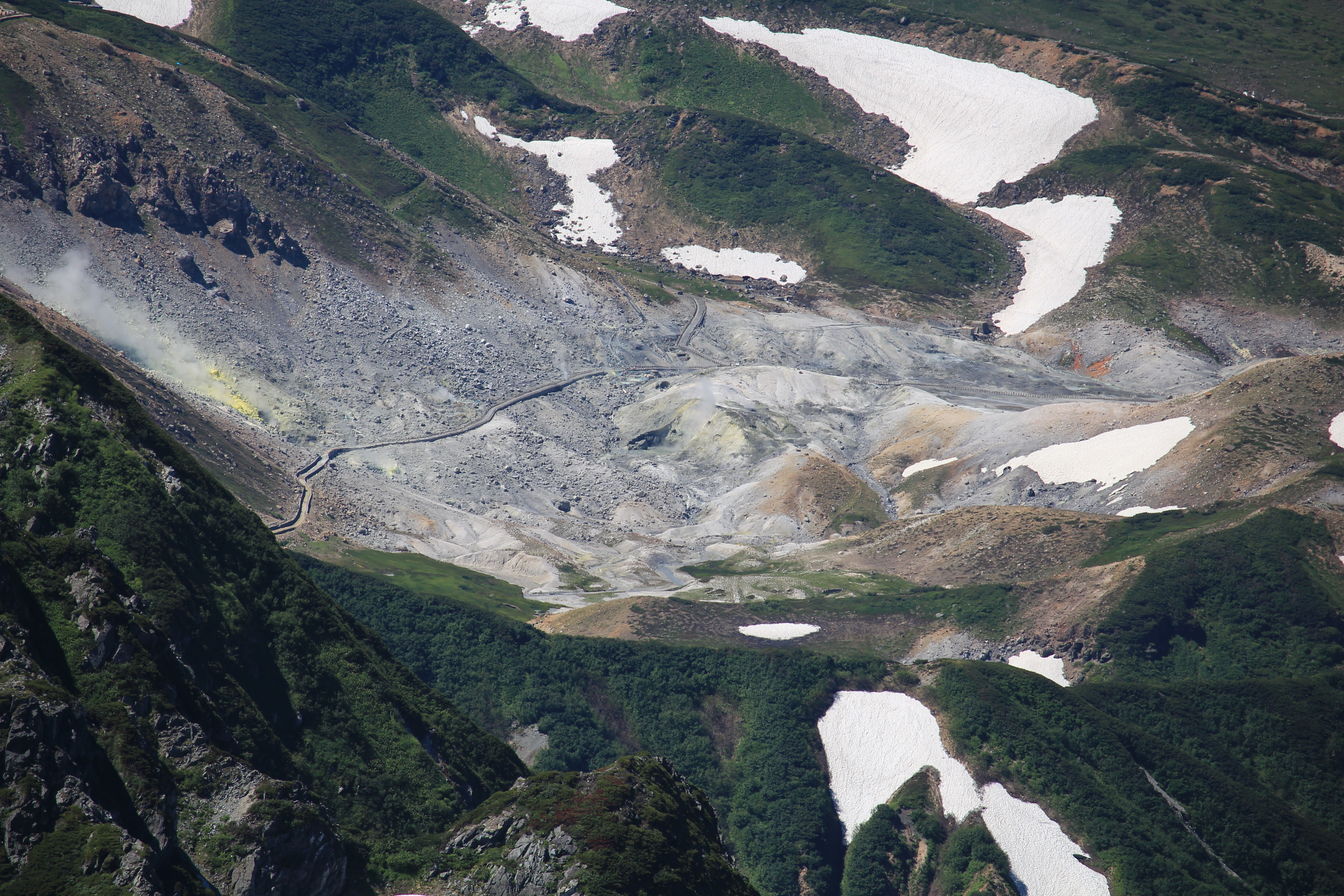 Jigokudani seen from Hayatsuki ridge of Mount Tsurugi, in Toyama prefecture, Japan.